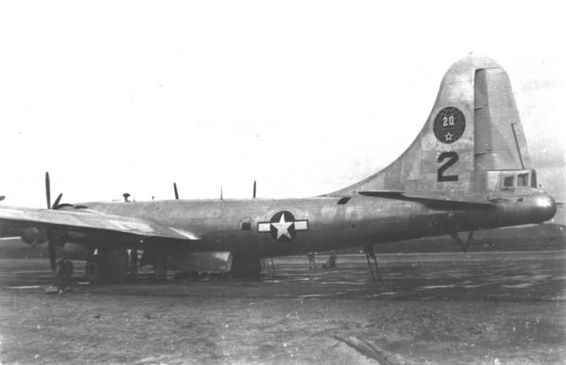 B-29 Number 2 photographed at Sapporo Air Base before the record-breaking flight to Chicago, September 18-19, 1945. Aircraft commander was Major General Curtis LeMay.